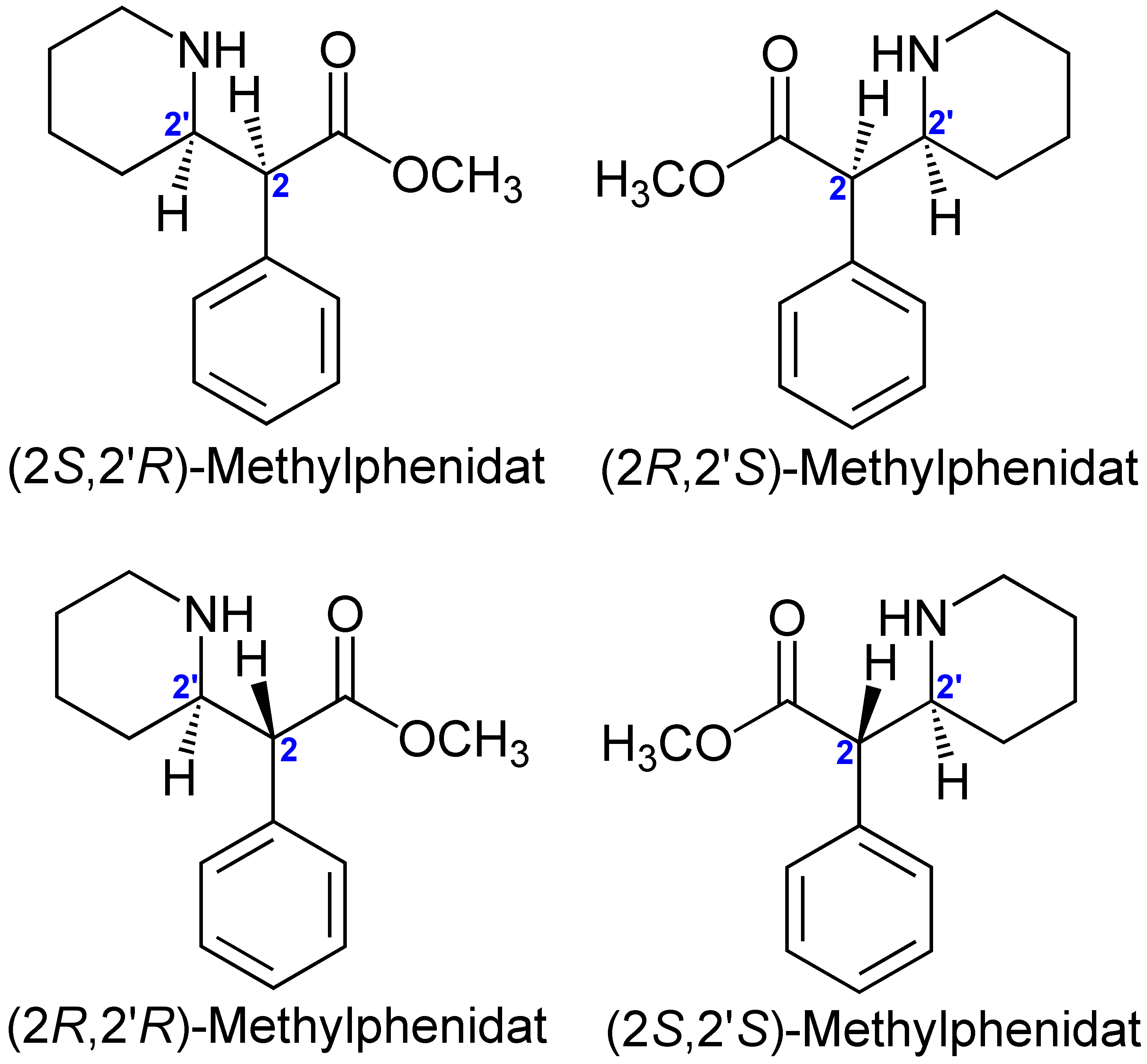 4 Stereoisomers of methylphenidate